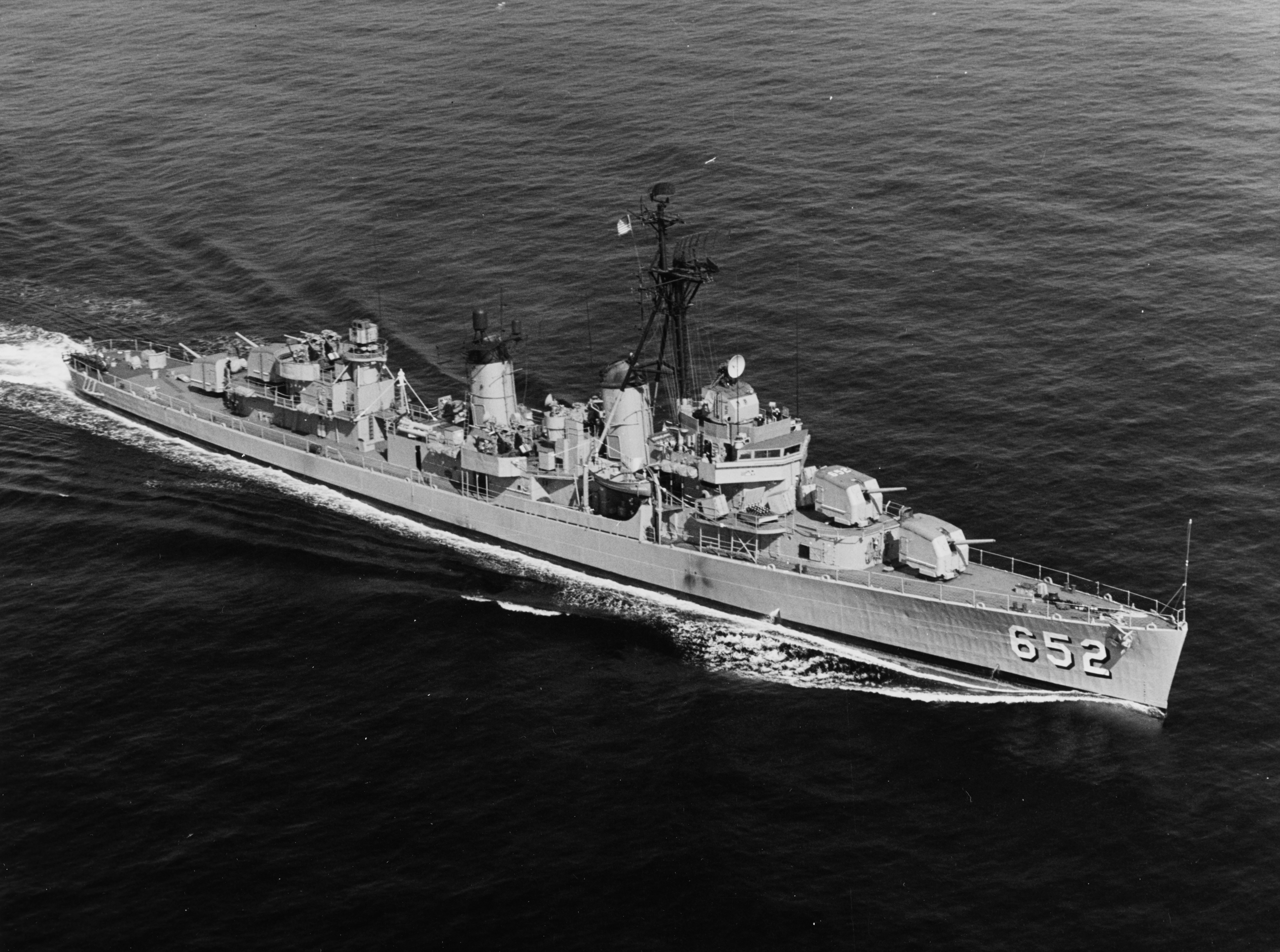 The U.S. Navy destroyer USS Ingersoll (DD-652) underway at sea off the coast of San Diego, California (USA), on 22 October 1966.